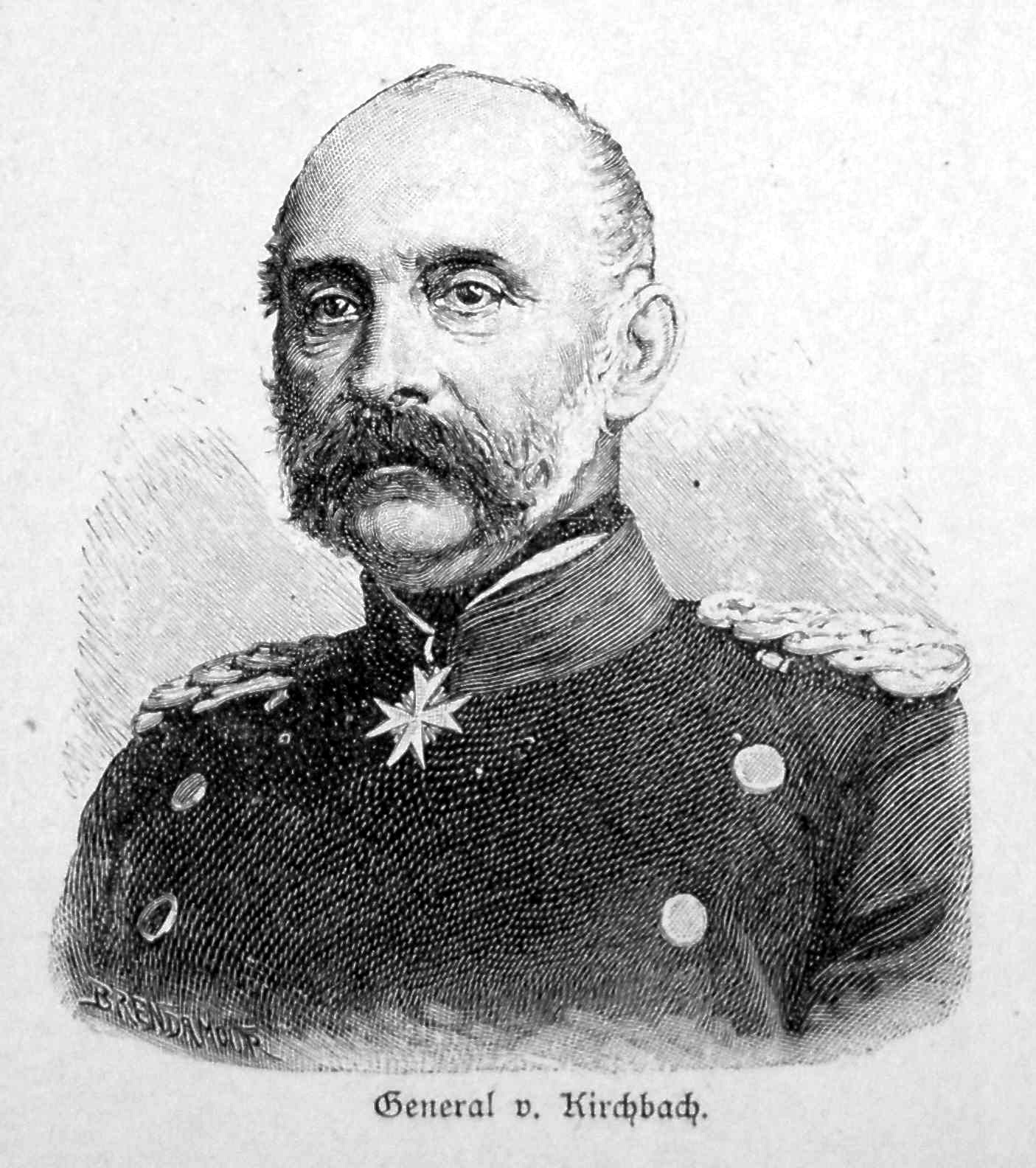 general von Kirchbach